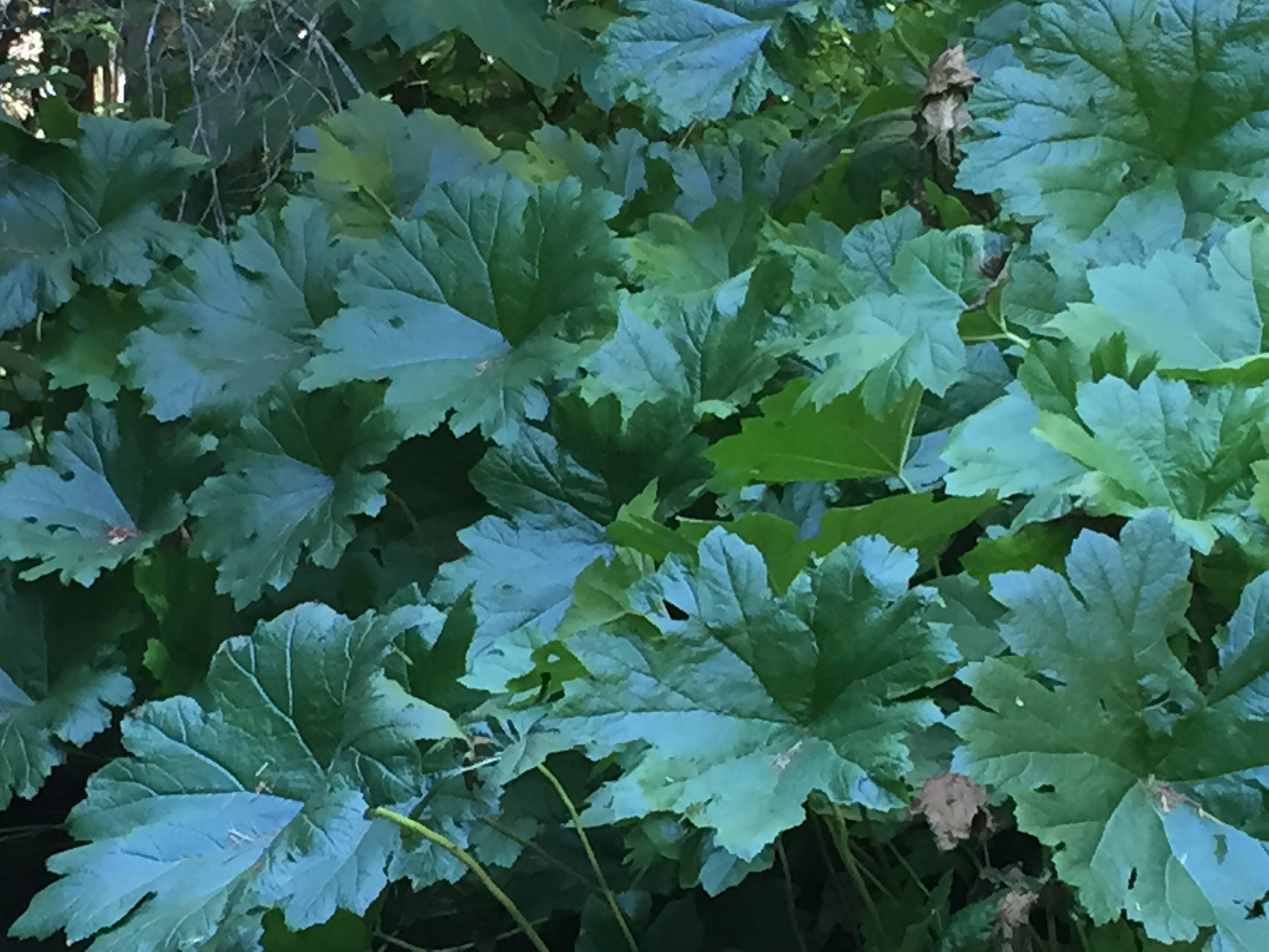 Darmera peltata "Indian rhubarb" growing along a creek in El Dorado National Forest, El Dorado County, California